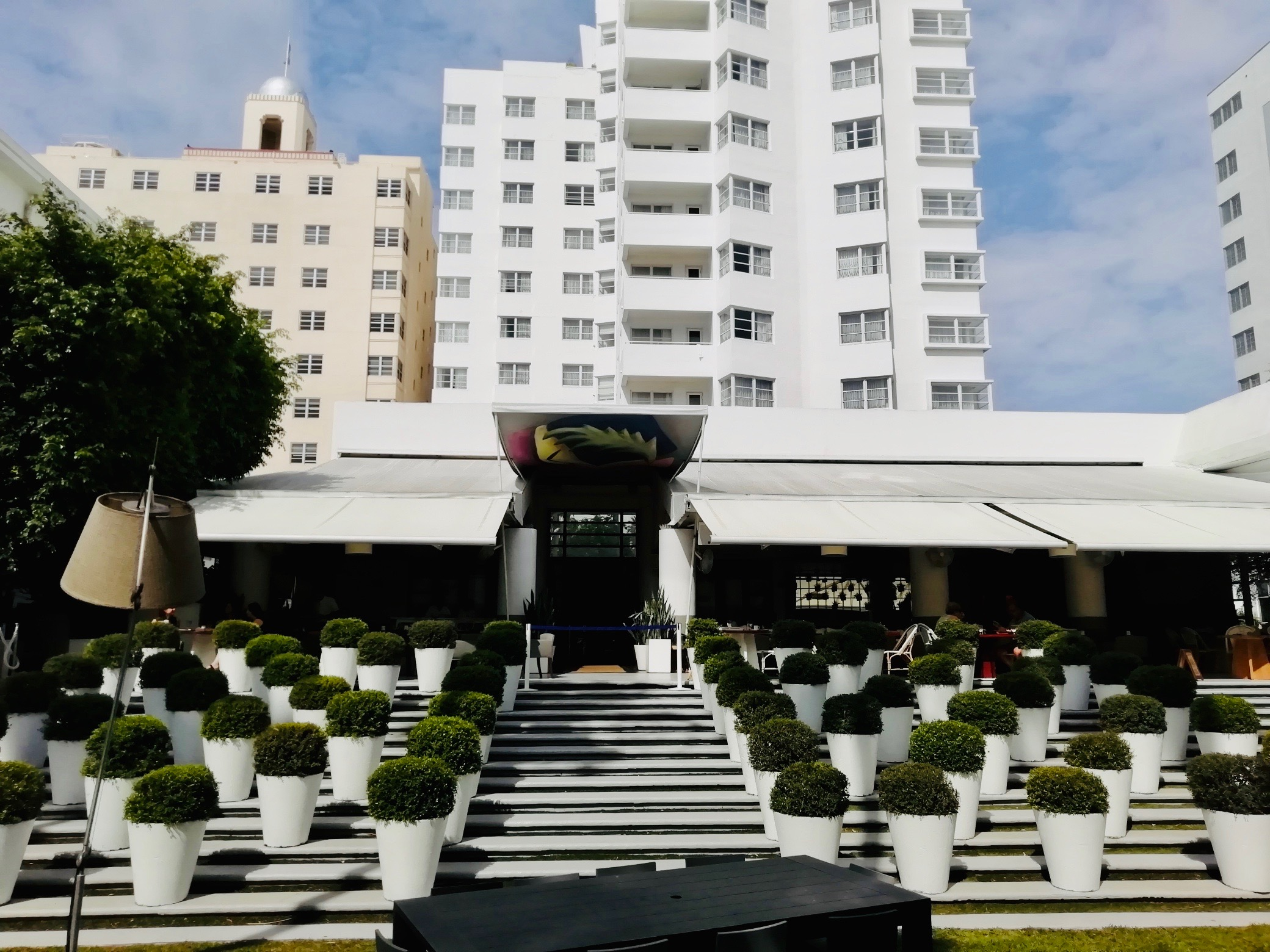 The Delano Hotel, (garden steps) South Beach, Miami